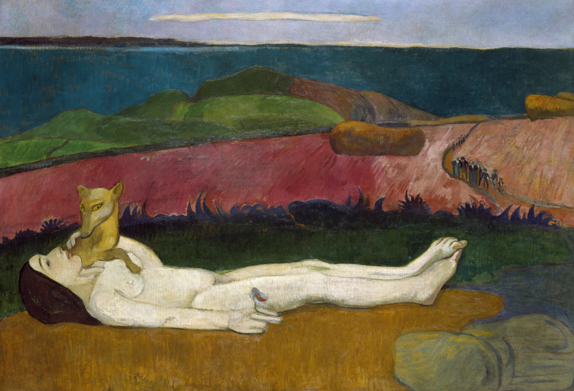 The model was Juliette Huet, who became Gauguin's mistress and bore him a daughter (Mathews pp. 159-61).Landscape between the Plage Porguerrec and the mouth of the Port du Pouldu